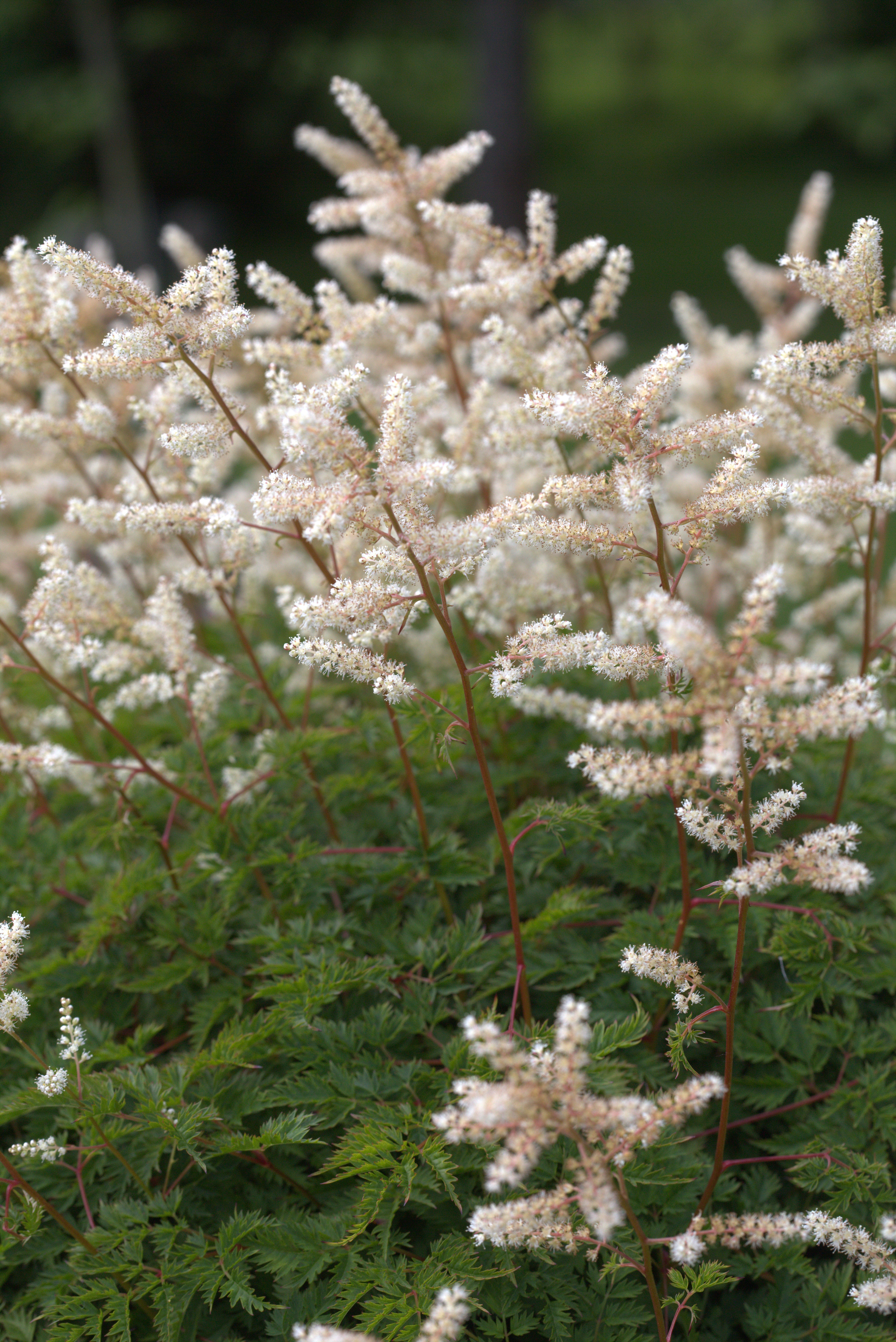 Aruncus aethusifolius in Gothenburg Botanical Garden 2015. Plant id: 1991-1896 p G.